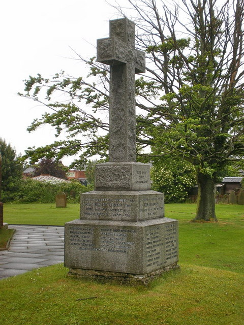 War Memorial, The Parish Church of St Stephen in the Banks